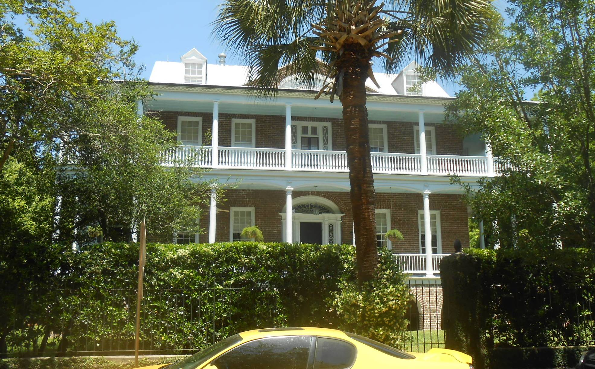 64 Vanderhorst Street, Charleston, South Carolina